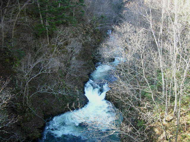 Otarunai River. Mimami ward, Sapporo, Hokkaidō prefecture, Japan.